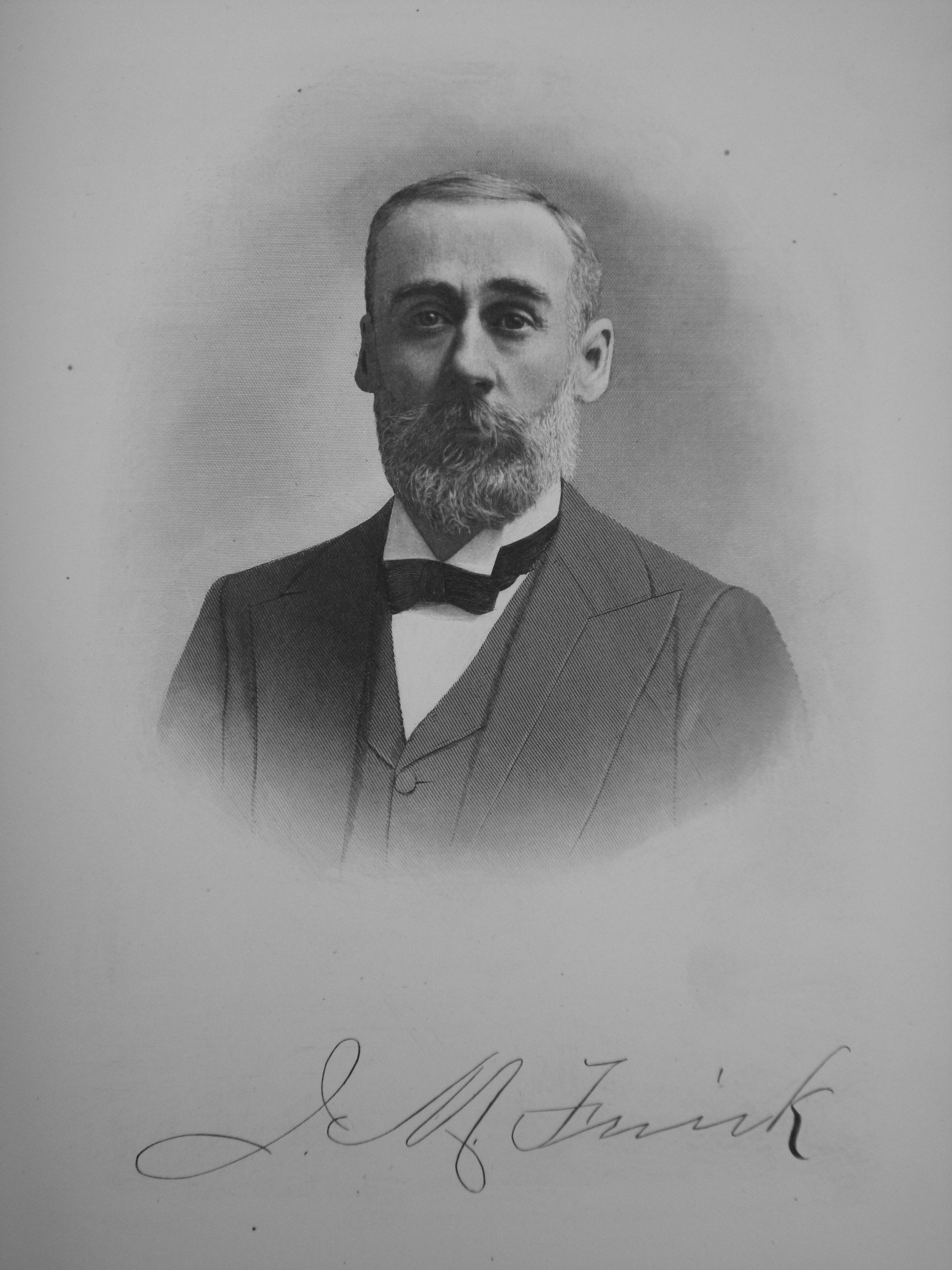 John M. Frink. Entrepreneur and banker, one of Seattle's wealthiest citizens of his generation. Founded Washington Iron Works. Served on the Seattle School Board, City Council, and in the State Senate. Donated the land that became Seattle's Frink Park.